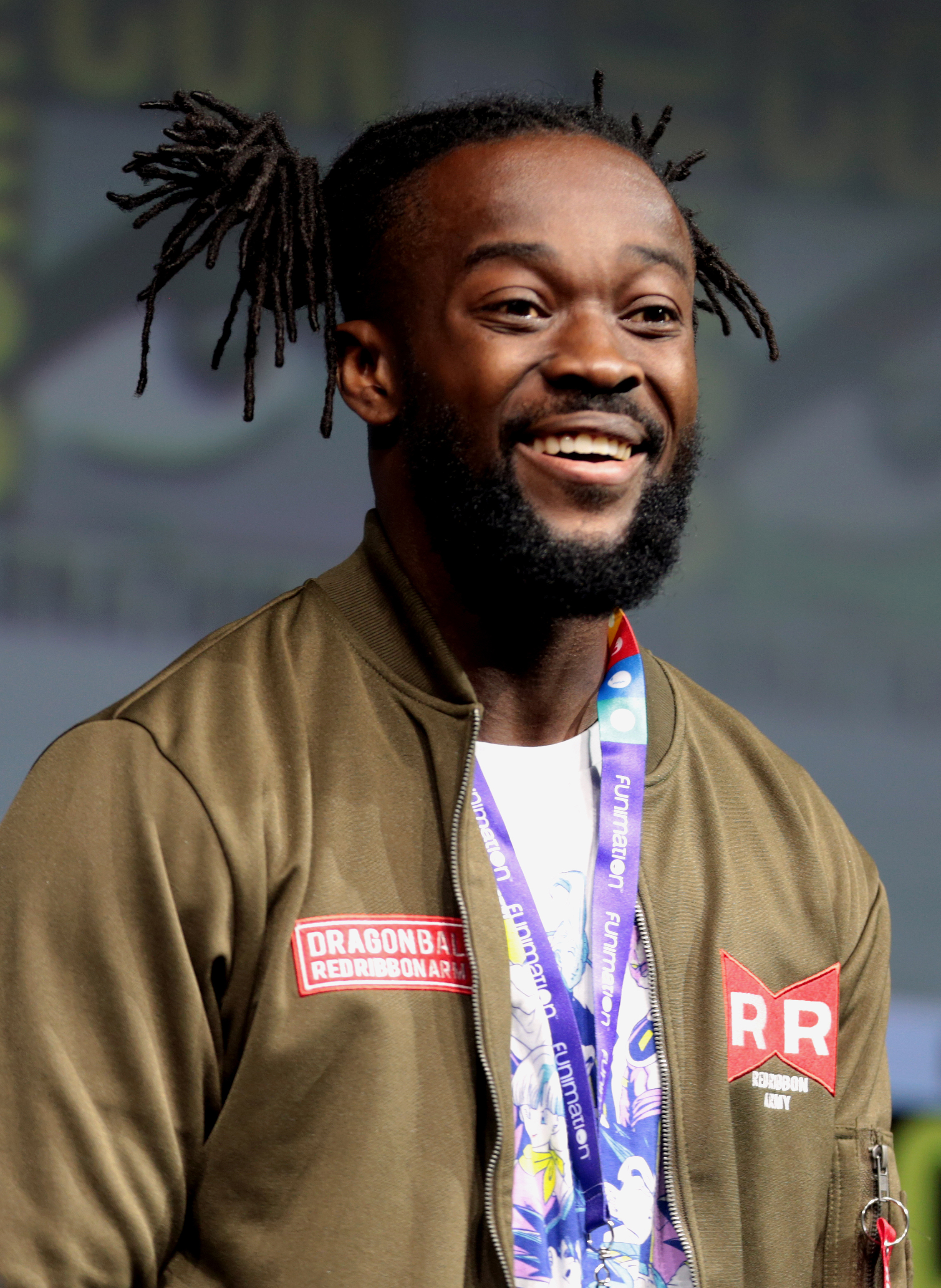 Kofi Kingston speaking at the 2018 San Diego Comic-Con International in San Diego, California.